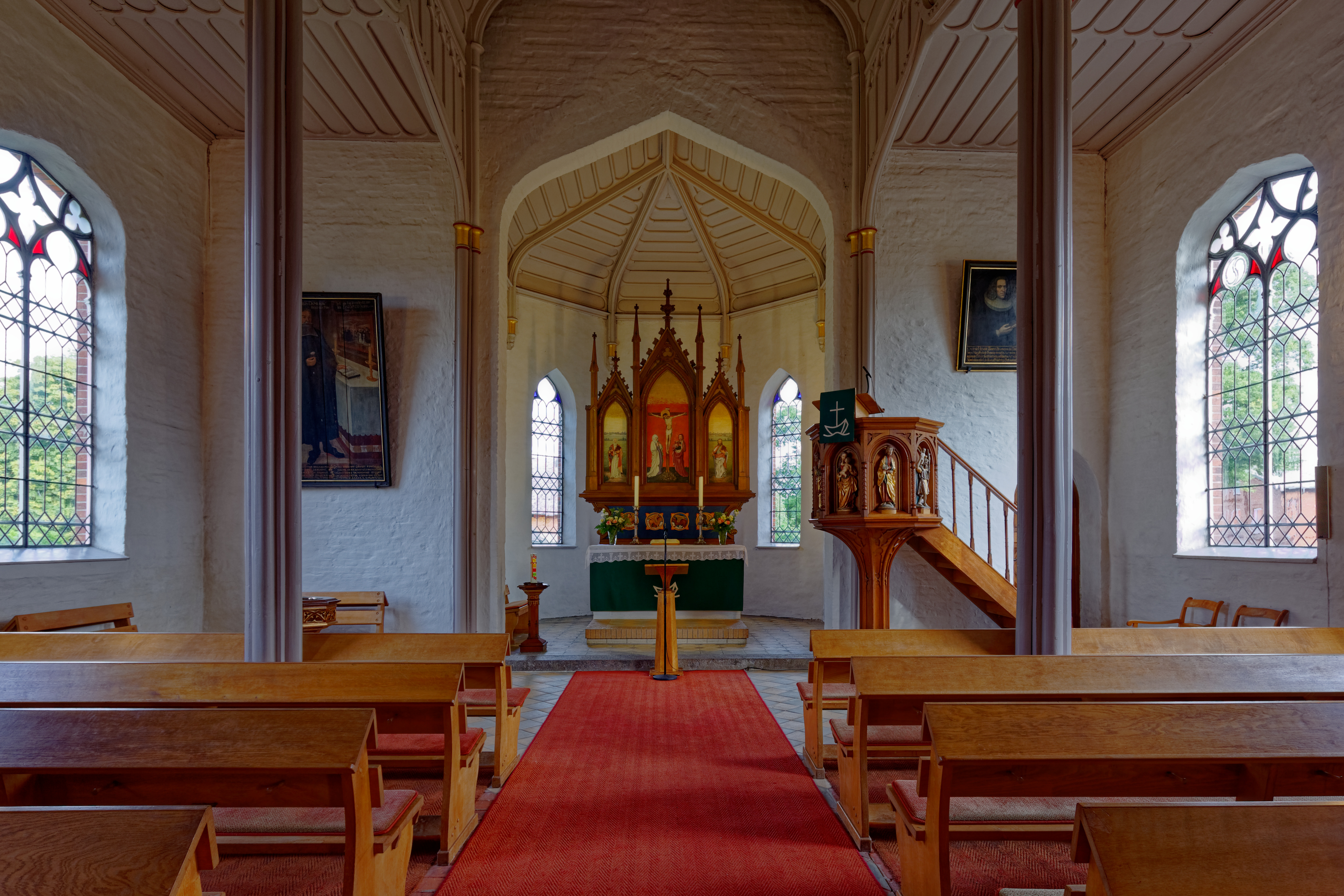 Church St. Maria in Siebenbäumen, interior with altar